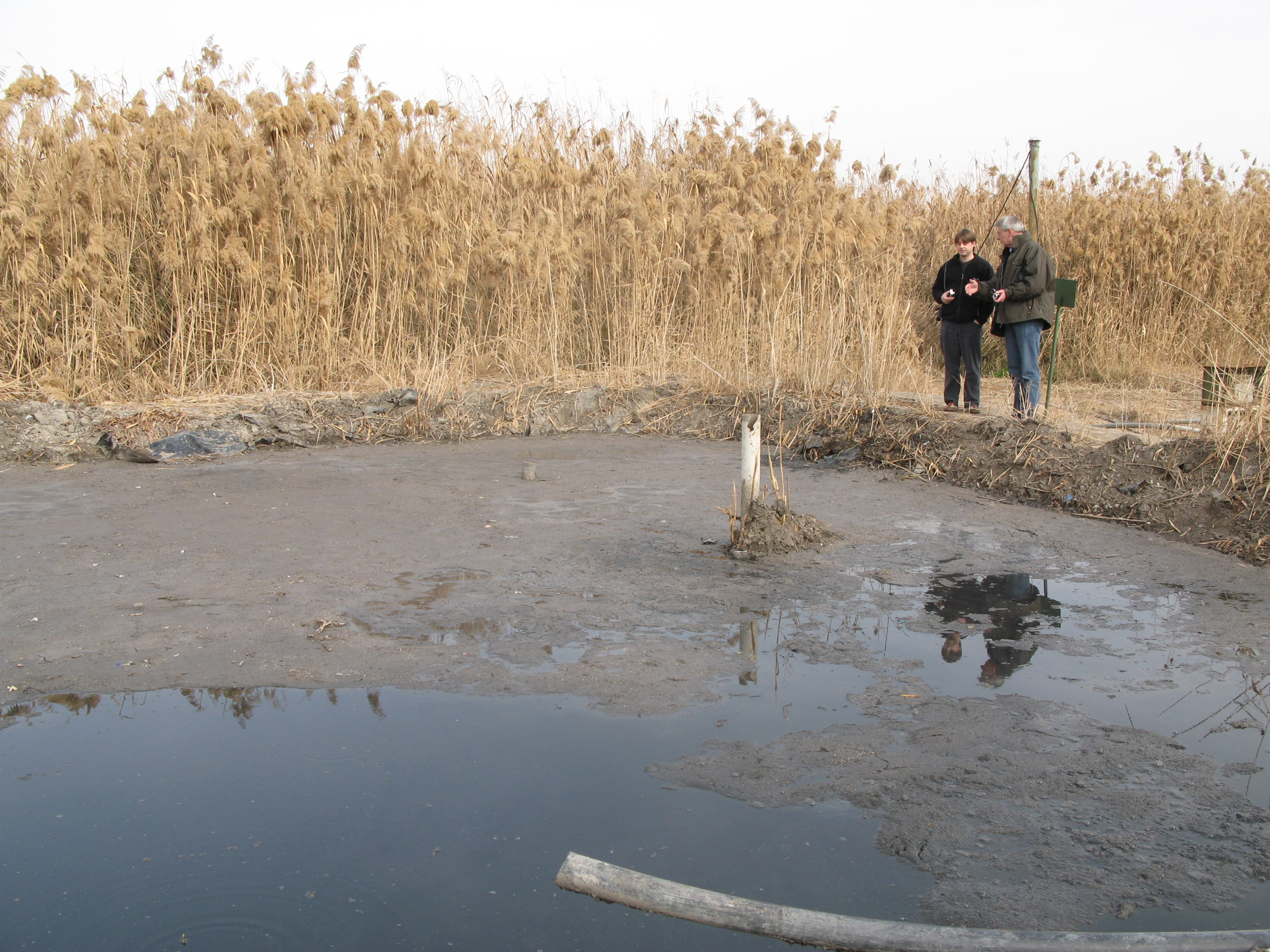 At the front you can see the sludge pipe from the primary settling tank.